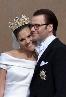 Wedding of Victoria, Crown Princess of Sweden, and Daniel Westling; The Couple at Lejonbacken